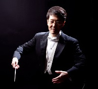 Photo